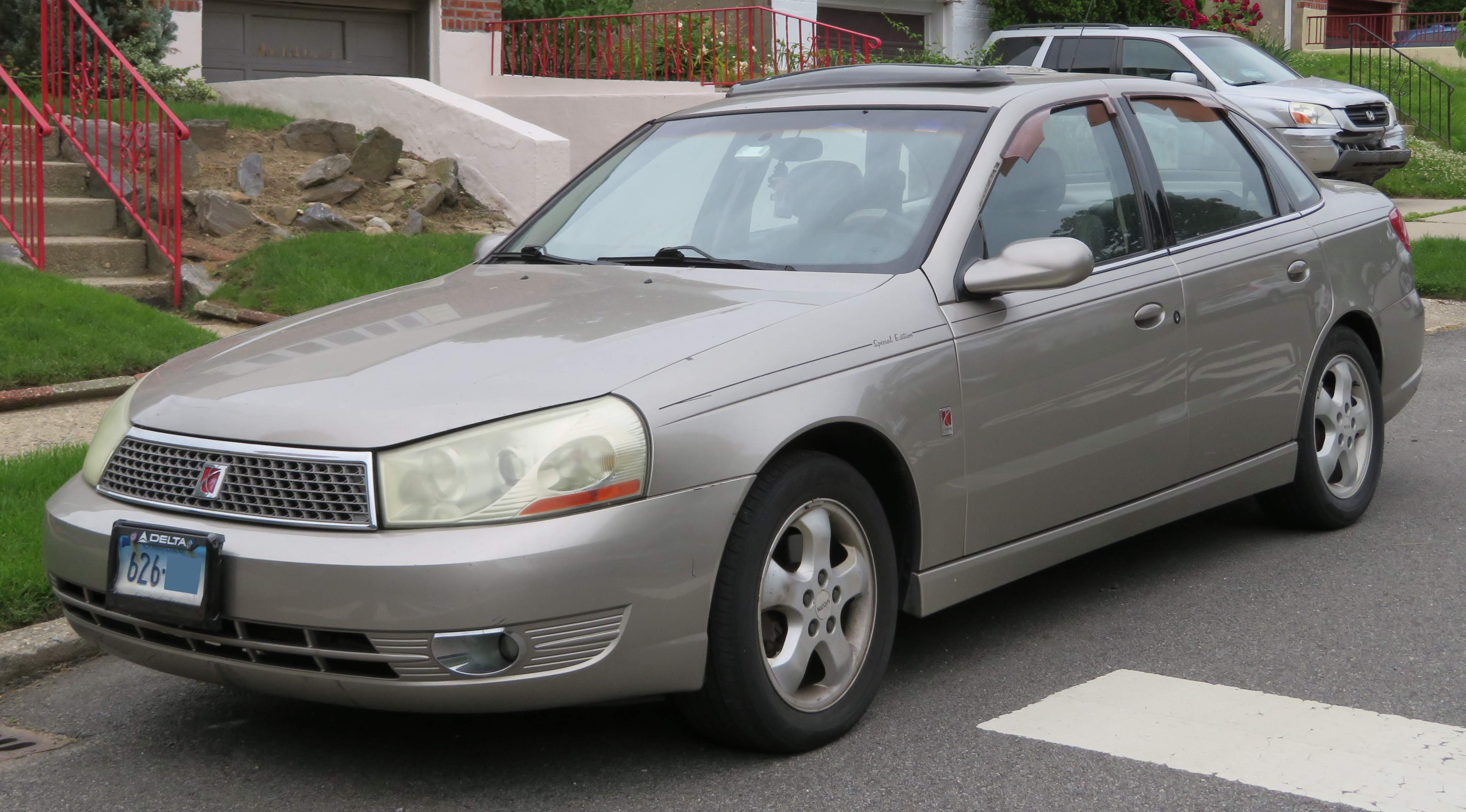 Photographed in Queens, New York